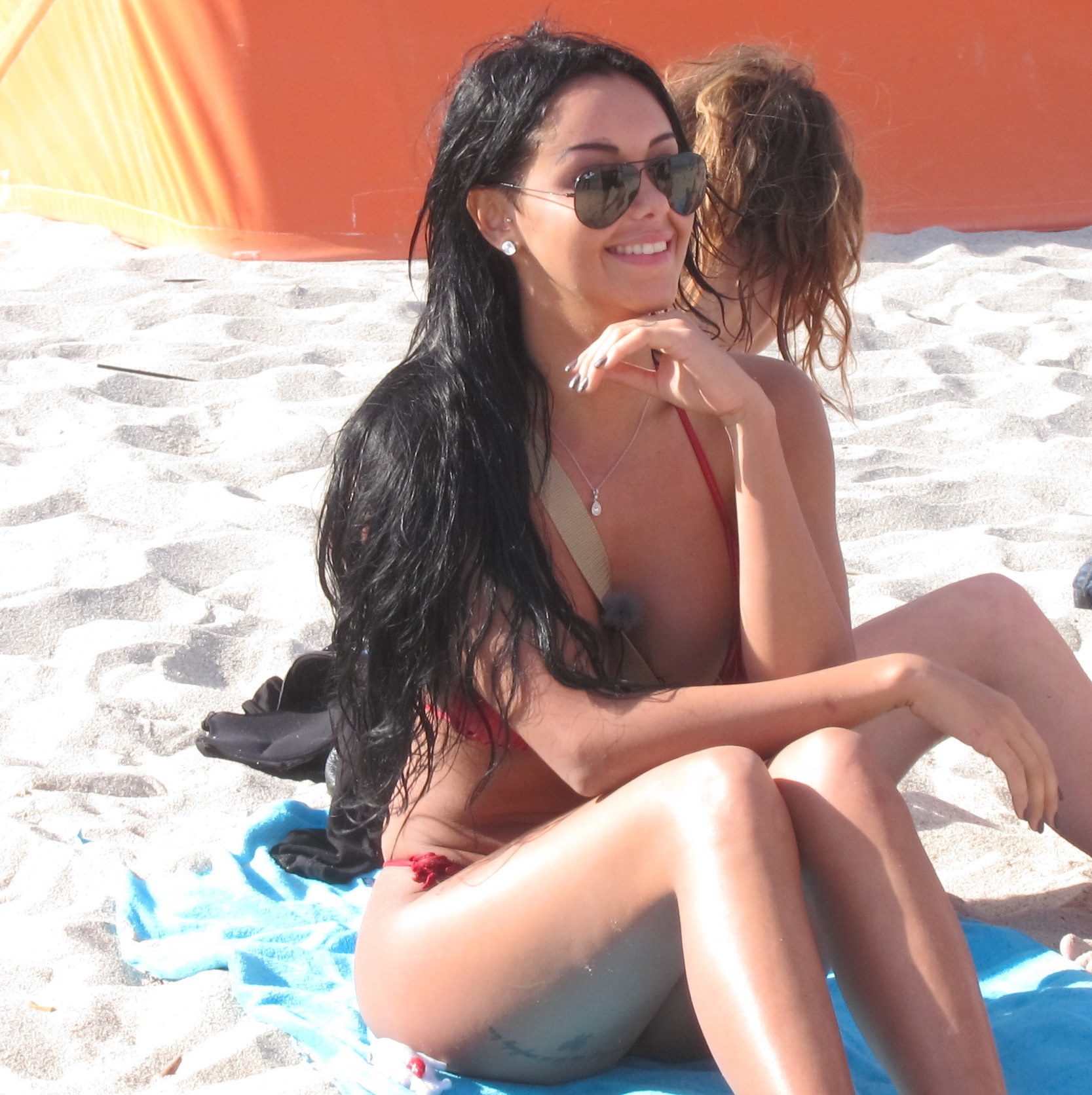 Nabilla Benattia in South Beach while shooting the fifth season of "les Anges de la télé-réalité" in Miami Beach